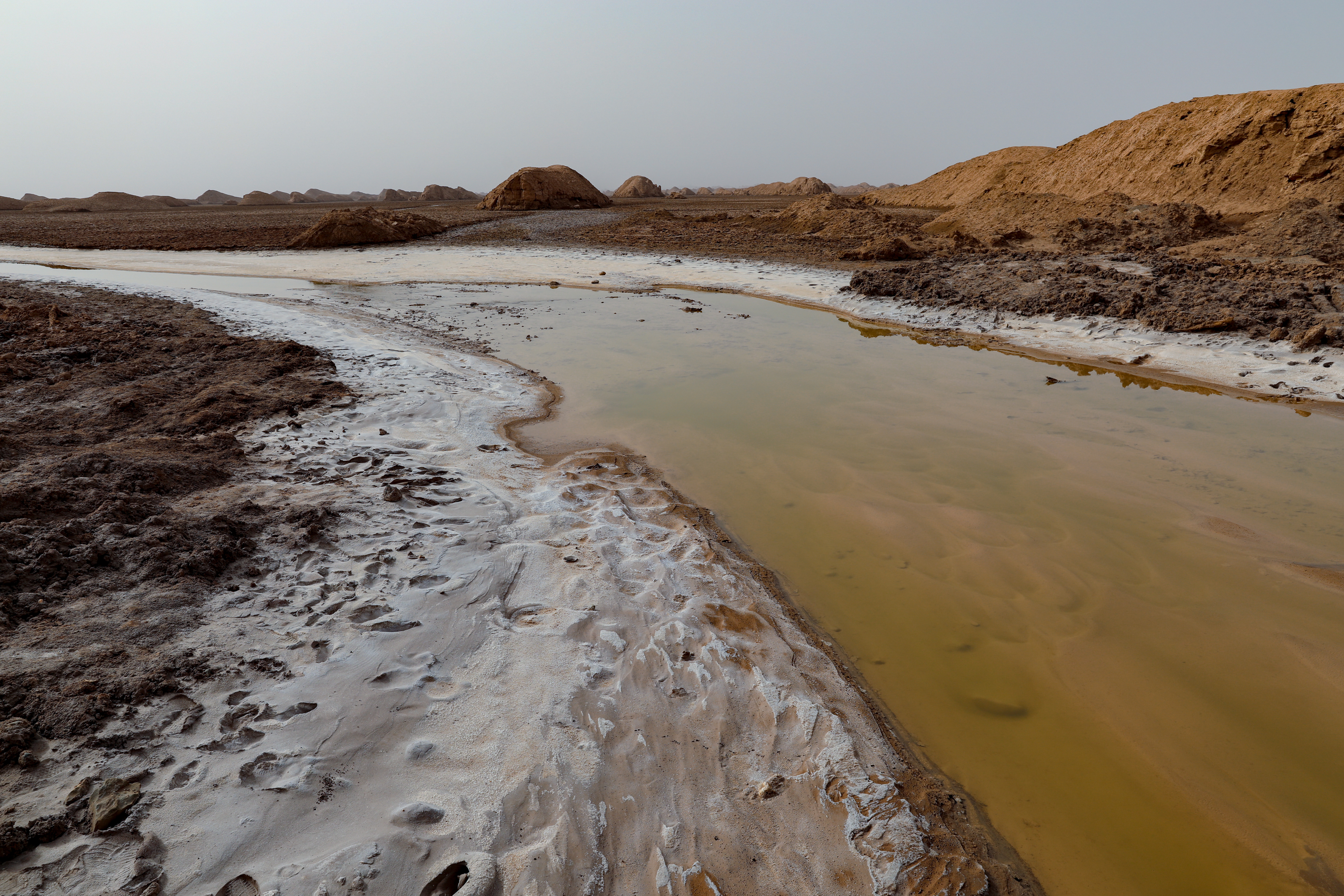 Dasht-e Lut Salt Desert in Kerman Province, Iran, Shoor salt river